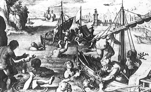 Venetian coral divers, 16th century.